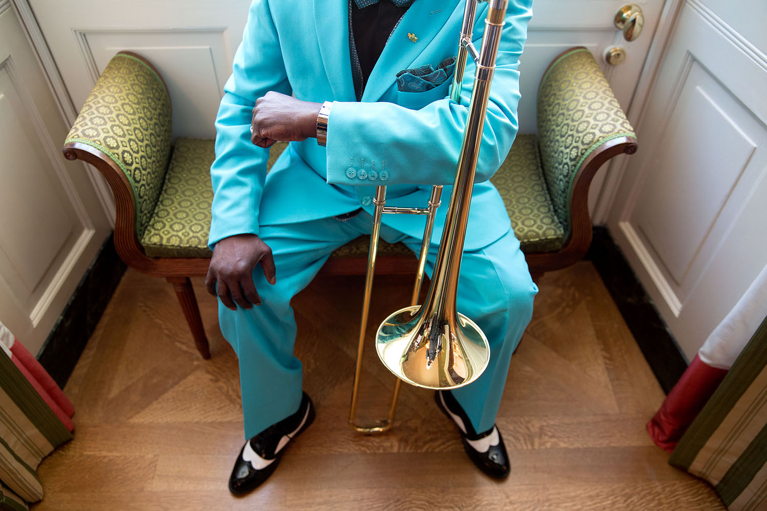 Oct. 15, 2015 "Chuck Kennedy made this photograph of a member of the Orquesta Buena Vista Social Club waiting in the Green Room of the White House prior to a reception for Hispanic Heritage Month and the 25th Anniversary of the White House Initiative on Educational Excellence for Hispanics." (Official White House Photo by Chuck Kennedy)